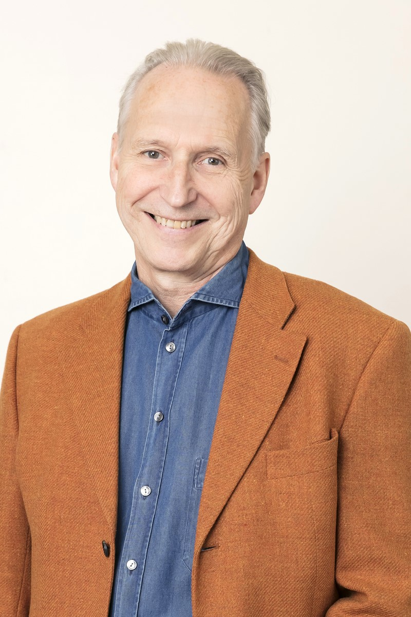 picture of Ari Trausti Guðmundsson